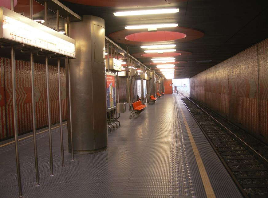 Platform of Pannenhuis station, Brussels metro